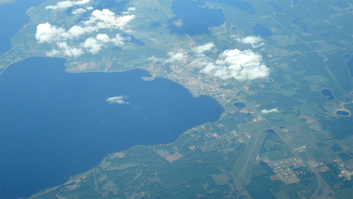 Aerial view of Lac La Biche, Alberta, taken from a Thomas Cook Airlines Airbus A330 en-route from Edmonton to London Gatwick. The "Notre Dame des Victoires / Lac La Biche Mission" National Historic Site of Canada is located roughly in the centre of the image.